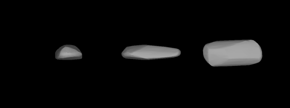 A three-dimensional model of 3279 Solon that was computed using light curve inversion techniques.